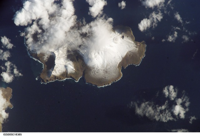 Aleutian Islands/Kagamil Island